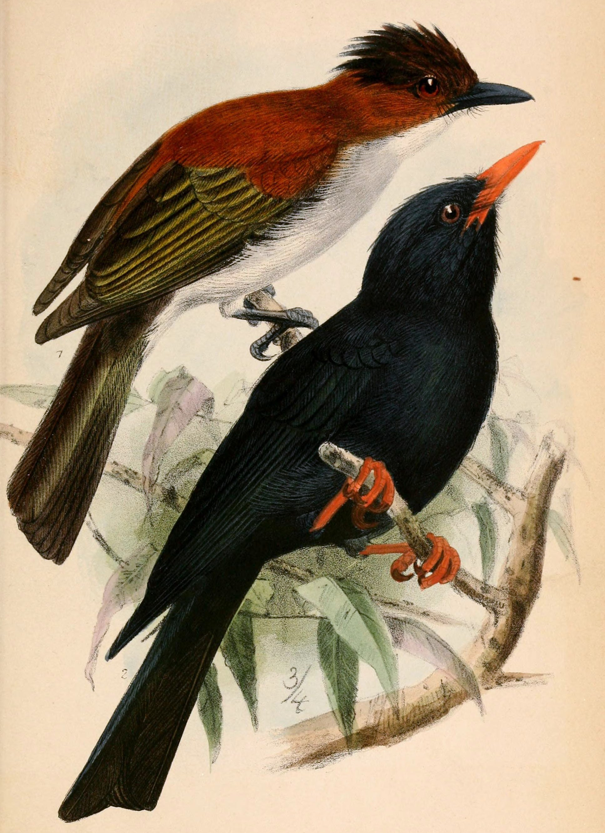 « Hemixus castanonotus » = Hemixos castanonotus (Chestnut Bulbul) « Hypsipetes perniger » = Hypsipetes leucocephalus perniger (Subspecies of Black Bulbul)